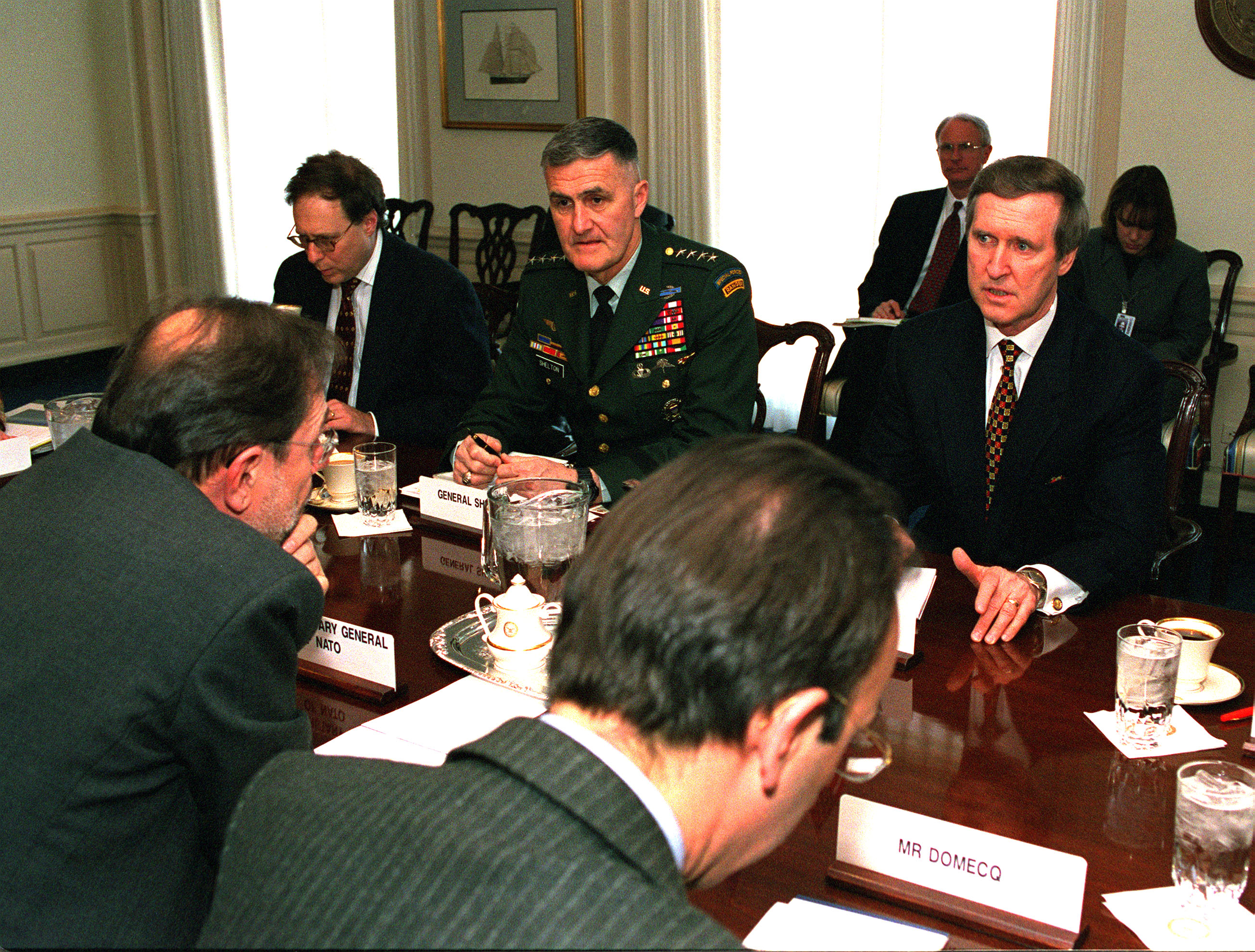 NATO Secretary General Javier Solana (left) meets with Secretary of Defense William Cohen (right) the Pentagon on March 15, 1999. Under discussion was the appropriate NATO reaction should the government of the Federal Republic of Yugoslavia refuse to sign the peace agreement being worked out in Rambouillet, France, with the Kosovar Albanians. Among those representing DoD at the meeting were U.S. Ambassador to NATO Sandy Vershbow (2nd from left) and Chairman of the Joint Chiefs of Staff Gen. Henry H. Shelton, U.S. Army (3rd from left).